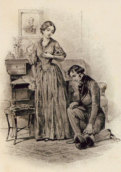 Onegin and Tatiana